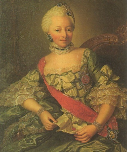 Louise Frederica of Württemberg, duchess of Mecklenburg-Schwerin